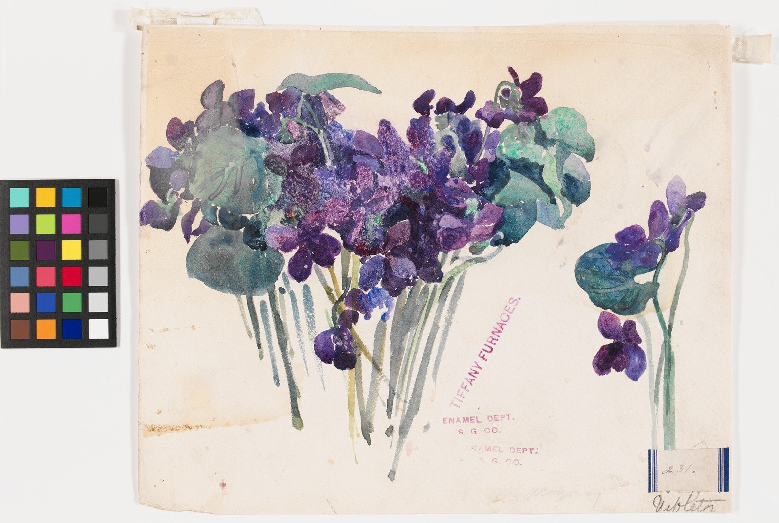 A watercolor painting of Violets by Alice Carmen Gouvy